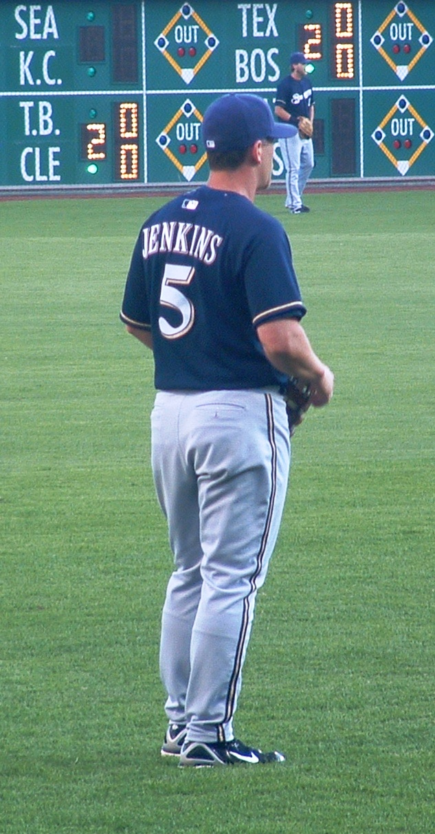 Photo of Geoff Jenkins in Pittsburgh, PA.